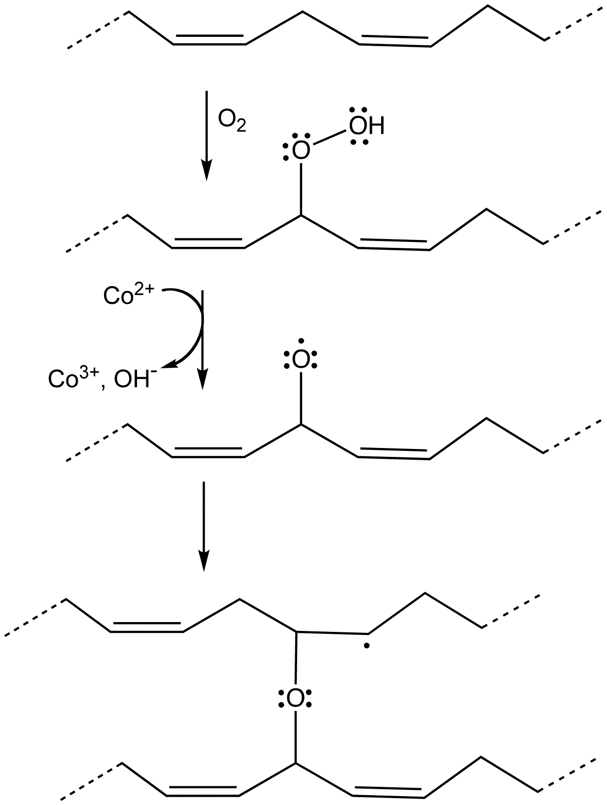 chemical reactions accompanying the "drying" of oil